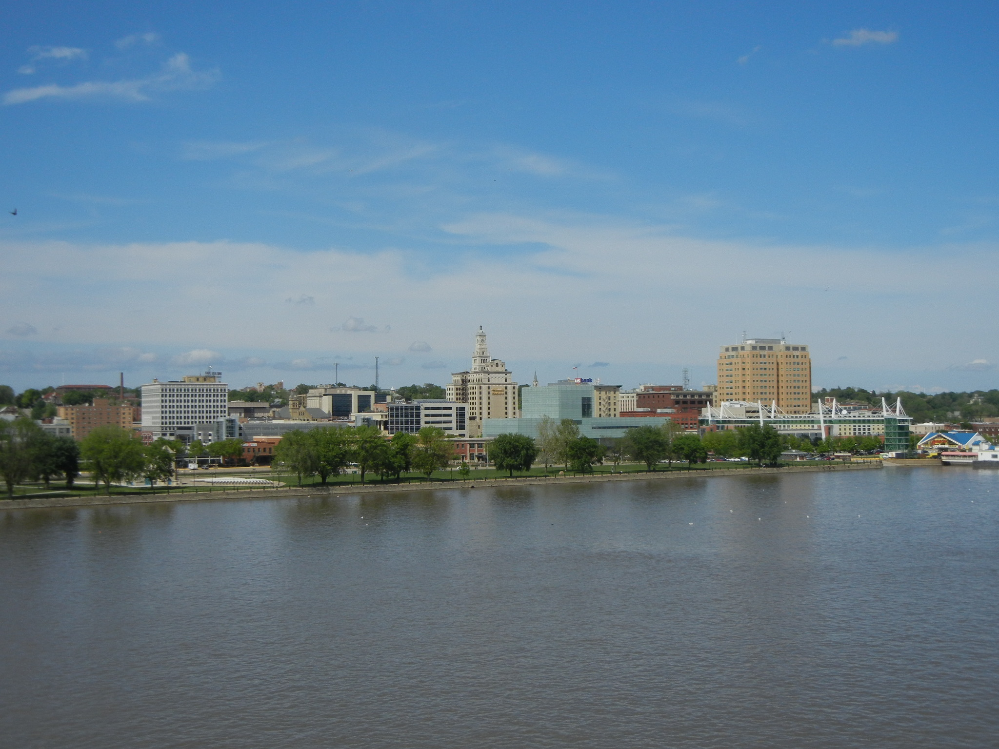 View of downtown Davenport